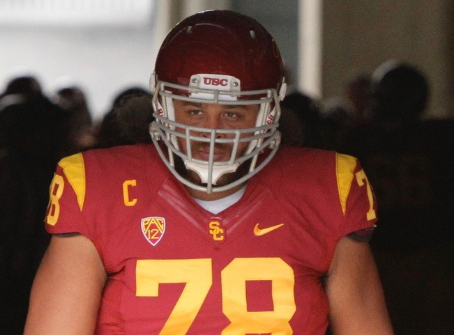 USC Trojans center, Khaled Holmes, right before the start of a game against the UCLA Bruins on November 17, 2012.